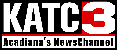 The logo of KATC, a television station located in Lafayette, LA.